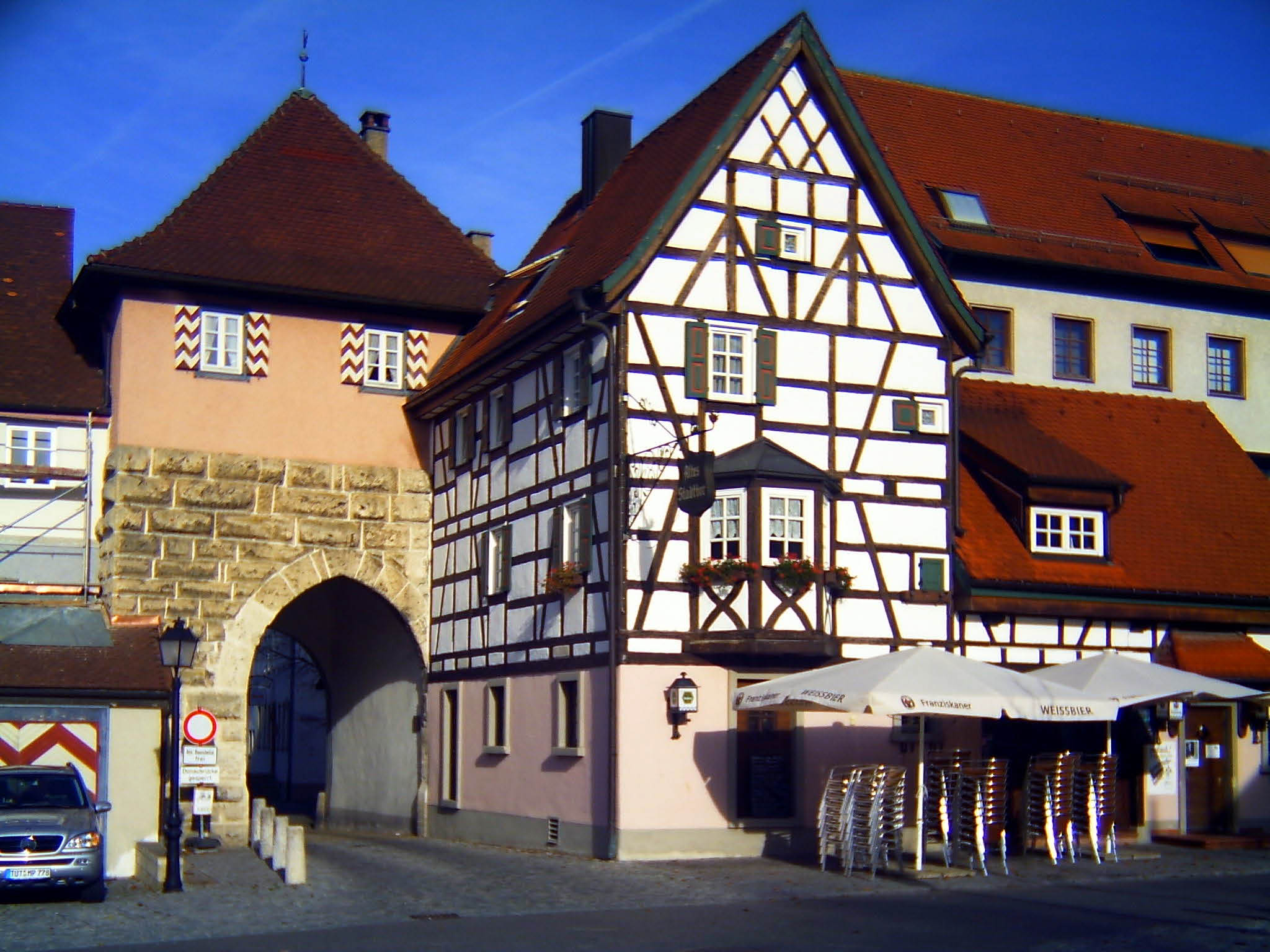 Town-Gat of Muehlheim at the Danube